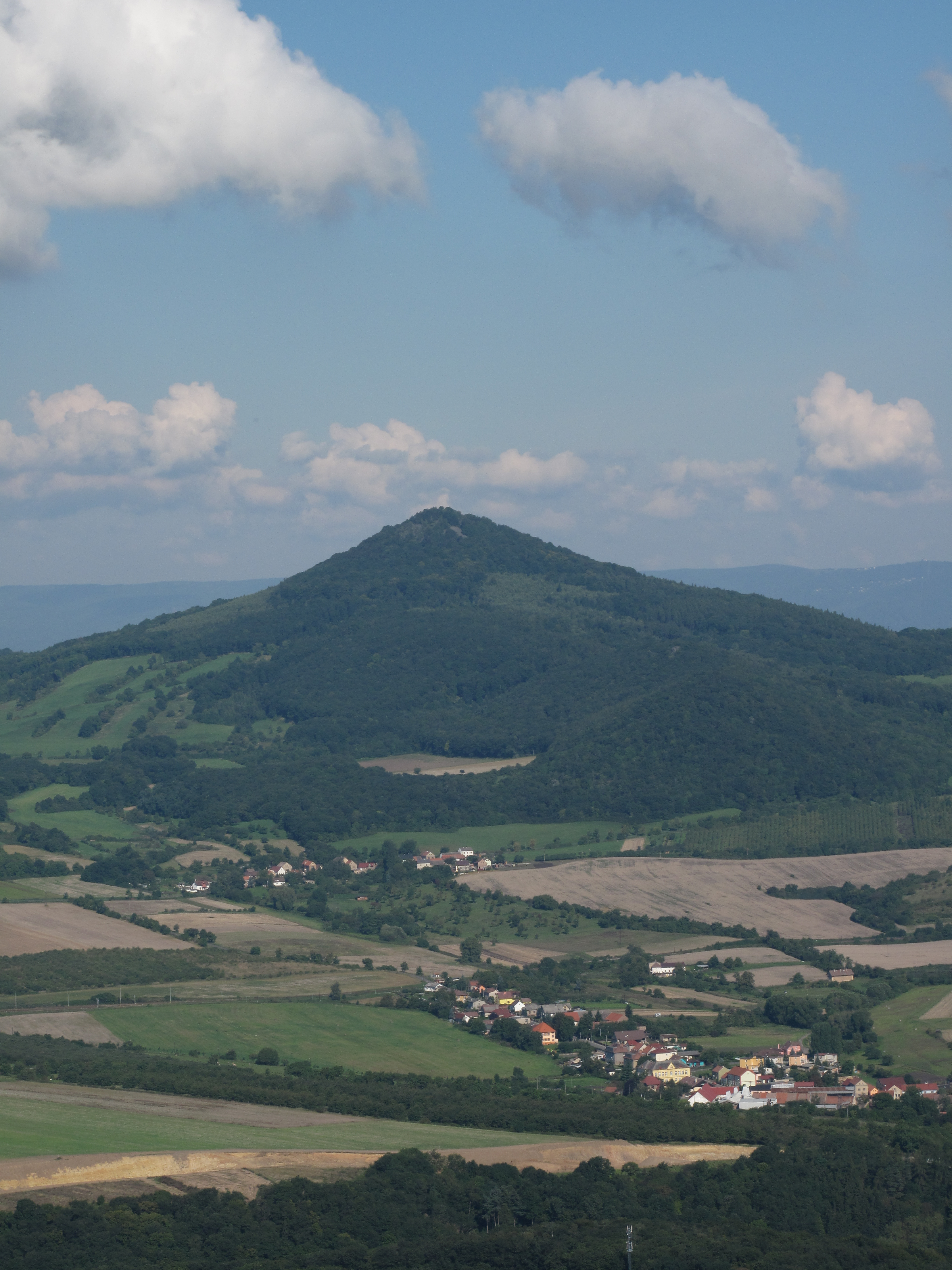 View from Lovoš Hill, Litoměřice District, Czech Republic.